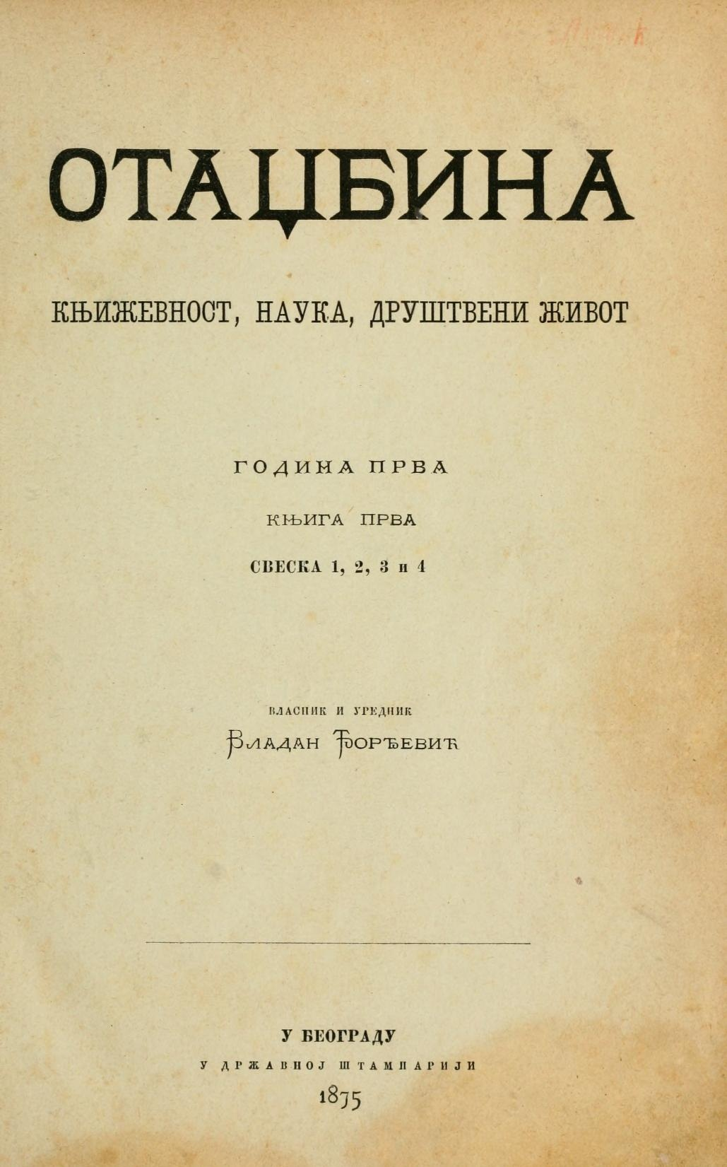 The title page of Отаџбина. Књижевност, наука, друштвени живот, ур. Владан Ђорђевић, Београд 1875